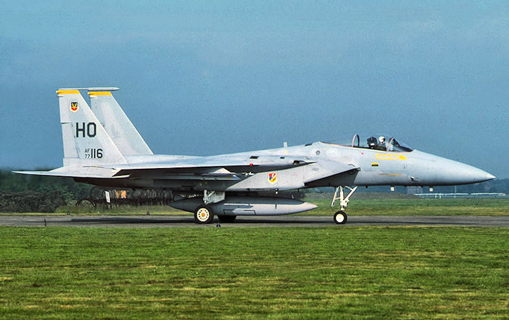 McDonnell Douglas F-15A-19-MC Eagle 77-0116 8th Tactical Fighter Squadron, 49th Tactical Fighter Wing, Taken at RAF Alconbury, England 0116 c/n 0402/A328. To AMARC as FH0141 Sep 20, 2006. Still on AMARC inventory Jan 15, 2008.